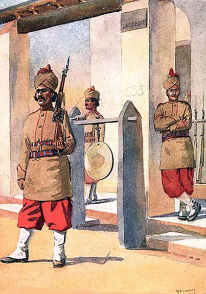 124th Duchess of Connaught's Own Baluchistan Infantry (now 6 Baloch, Pakistan Army). Watercolour by AC Lovett, c. 1910. Published in MacMunn & Lovett, Armies of India, 1911.